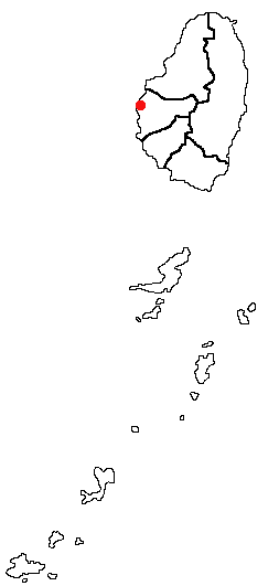 Barroualie, Saint Vincent and the Grenadines Location Map; created with the GIMP.